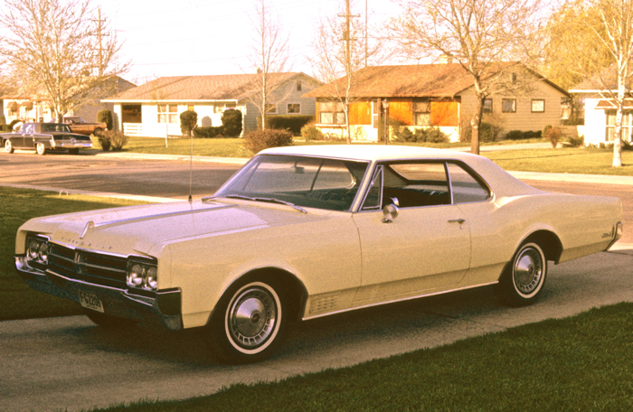 1965 Oldsmobile Jetstar I in Saffron Yellow. Photo taken by J Kraus with a Canon FX in Northern Illinois, April 1966.